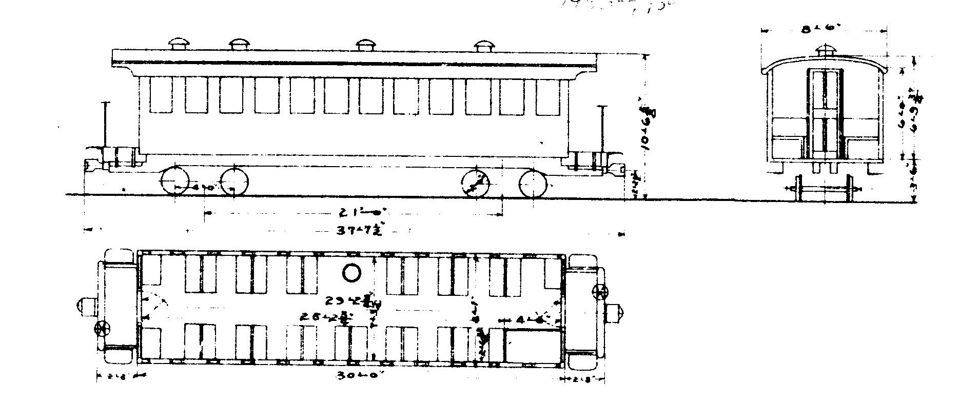 Type drawing of JGR's passenger car Fukoha7925 (ex. Hokkaido Tanko Railway Sa-1)